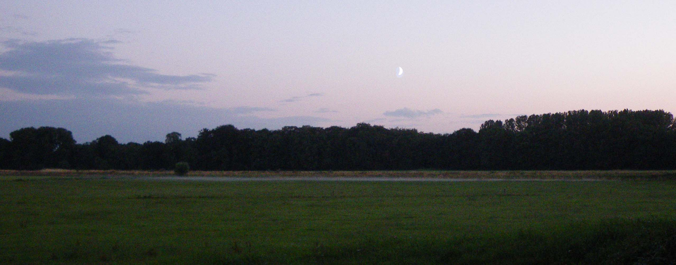 Forming process of light fog above a ditch, where there is a relative humidity near 100%. This photo is taken in the agricultural landscape between Gemonde and 's-Hertogenbosch, which is located in the Netherlands.